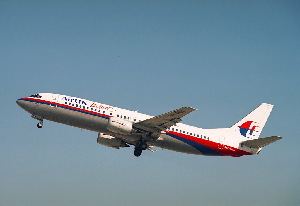 Basic Malaysia c/s.